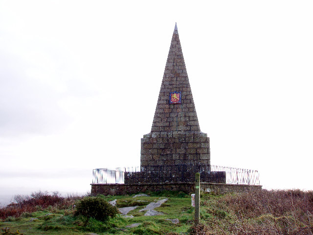 Knill's Monument. On a hill above St Ives, at 170m, with an excellent view of Carbis Bay to the east.